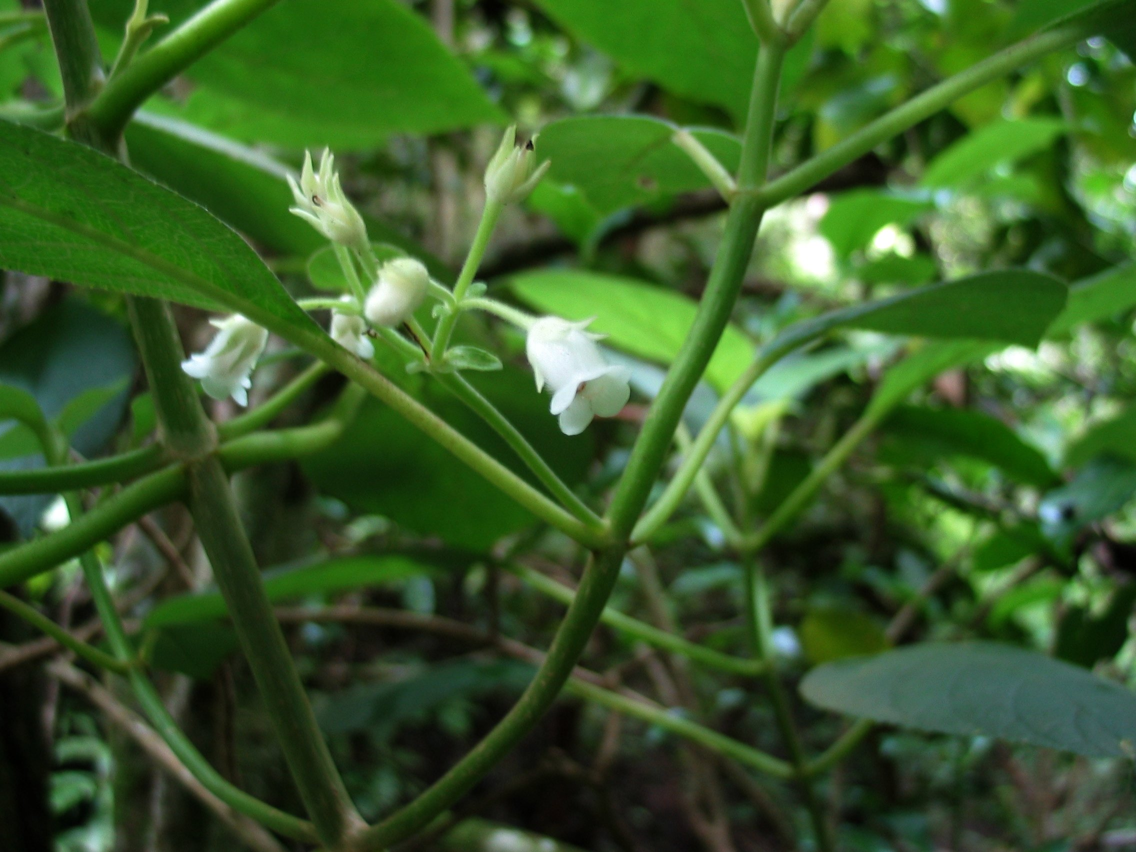 Hahala or Waianae cyrtandra Gesneriaceae Endemic to the Hawaiian Islands (Oʻahu only) ʻEkahanui Gulch, Waiʻanae Range, Oʻahu